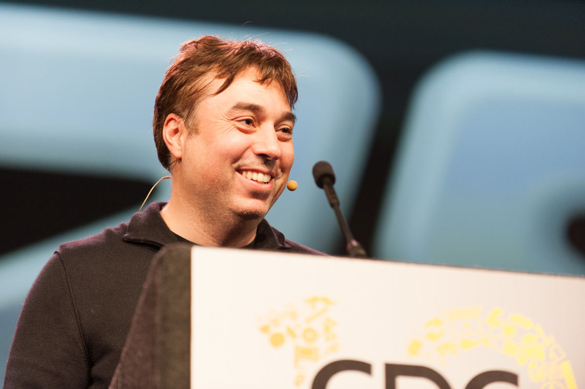 Max Photography for GDC Online GDC Online 2012 (Wed, 10/10) Roberts Space Industries Press Event Chris Roberts